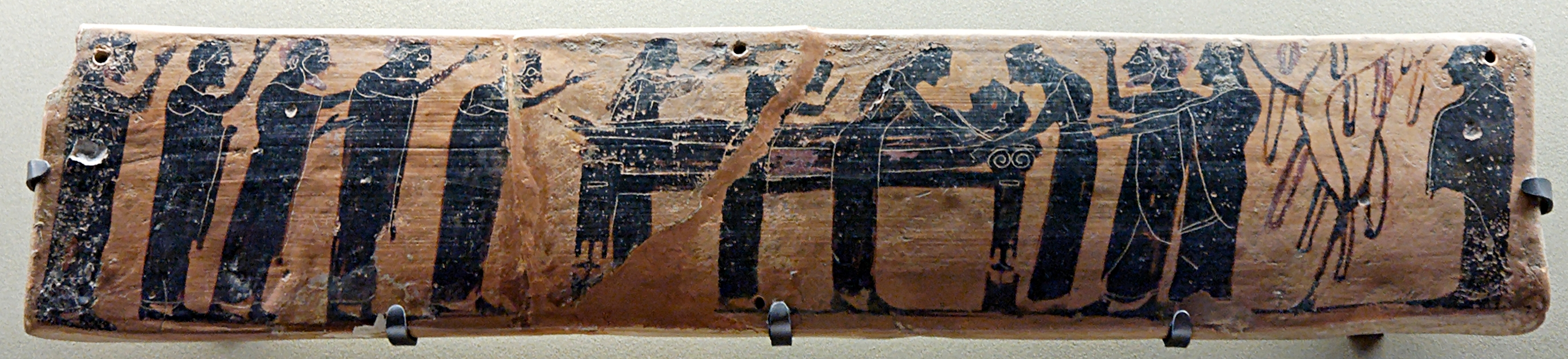 Prothesis (mourning of the dead) scene. Attic black-figure pinax (plaque), ca. 560–550 BC. Found in Athens.